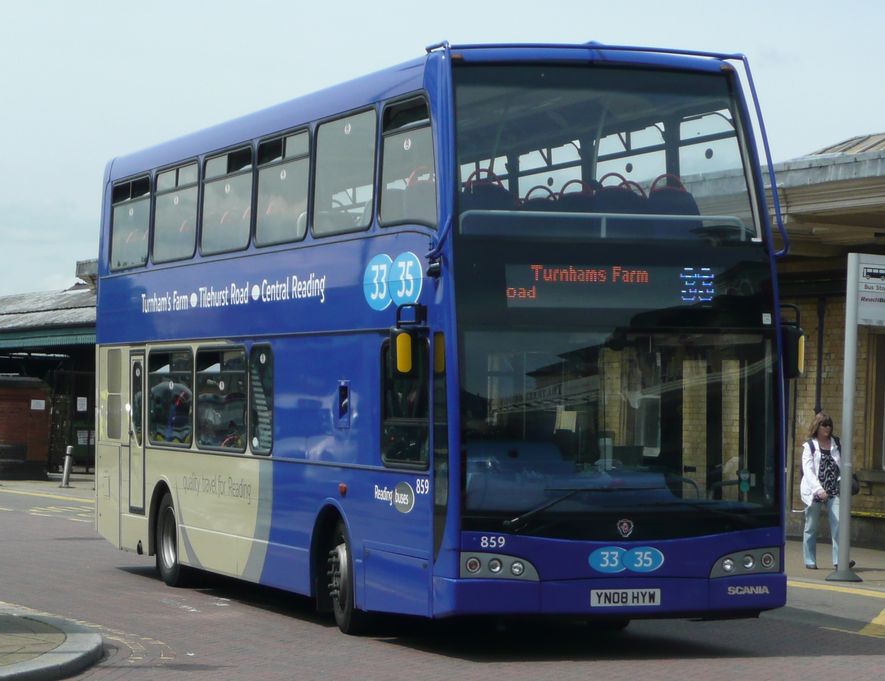 A Reading Transport Ltd bus in the dark blue livery for routes 31, 33 and 35.